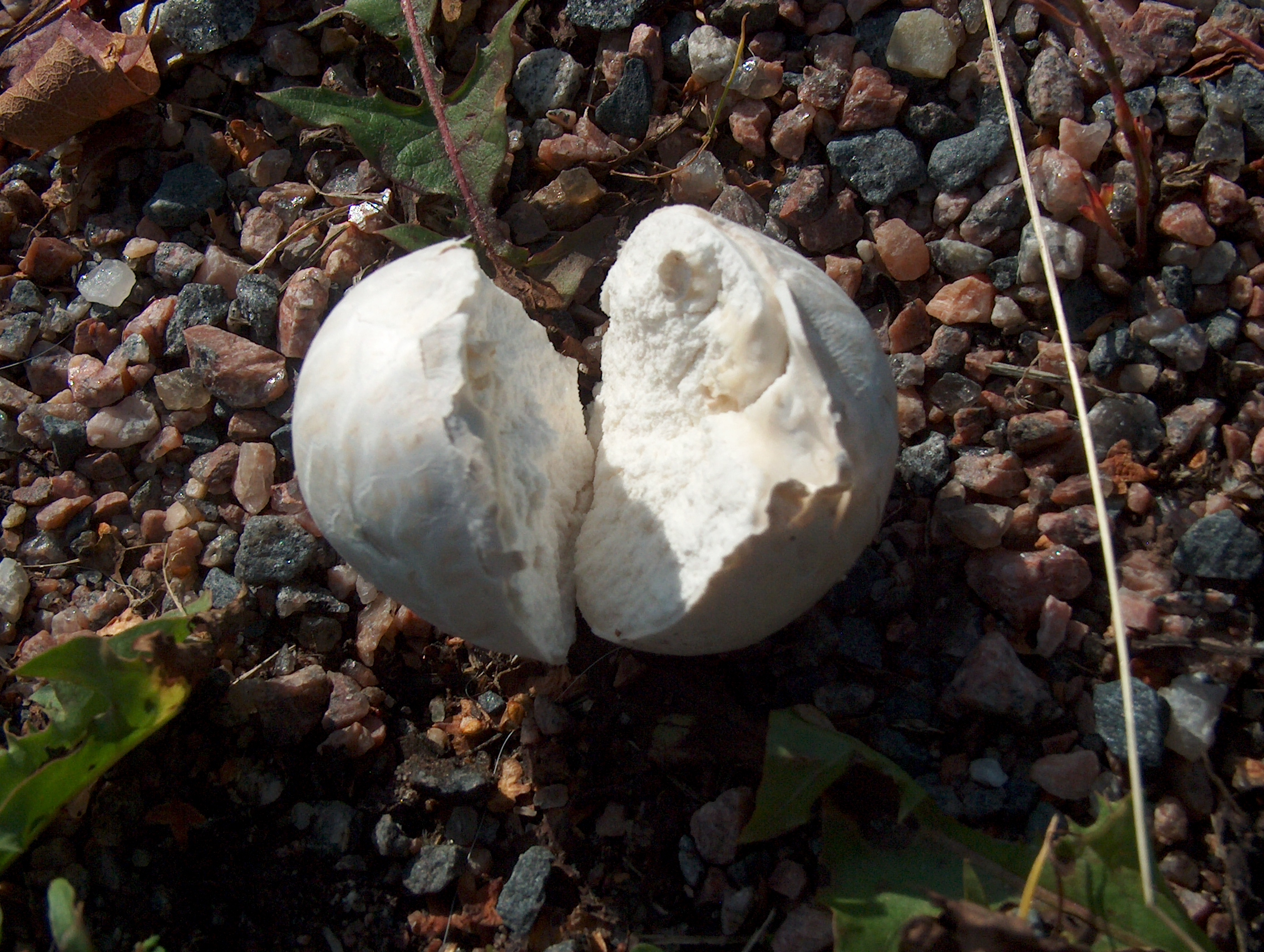 A true puffball, Bovista nigrescens, belongs to the Gastromycetes. It has no stalk (or stem). This one was found in Marjaniemi in Helsinki, Finland. I broke it in two parts.